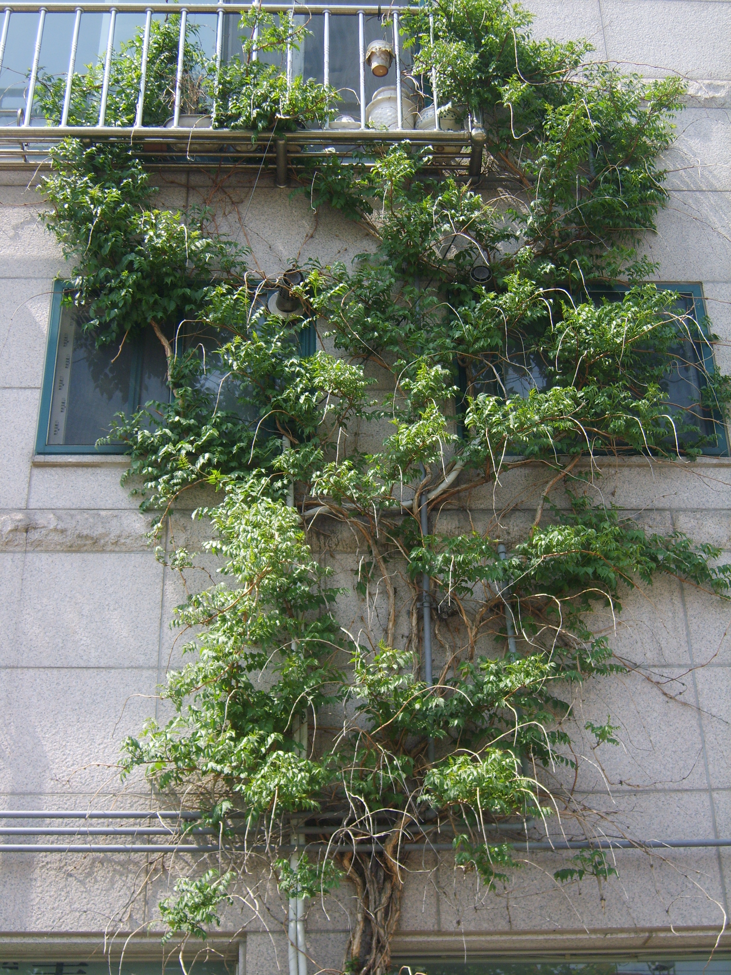 Campsis grandiflora in Bupyung Korea. 부평역 근처 주택을 타고 오르는 능소화.